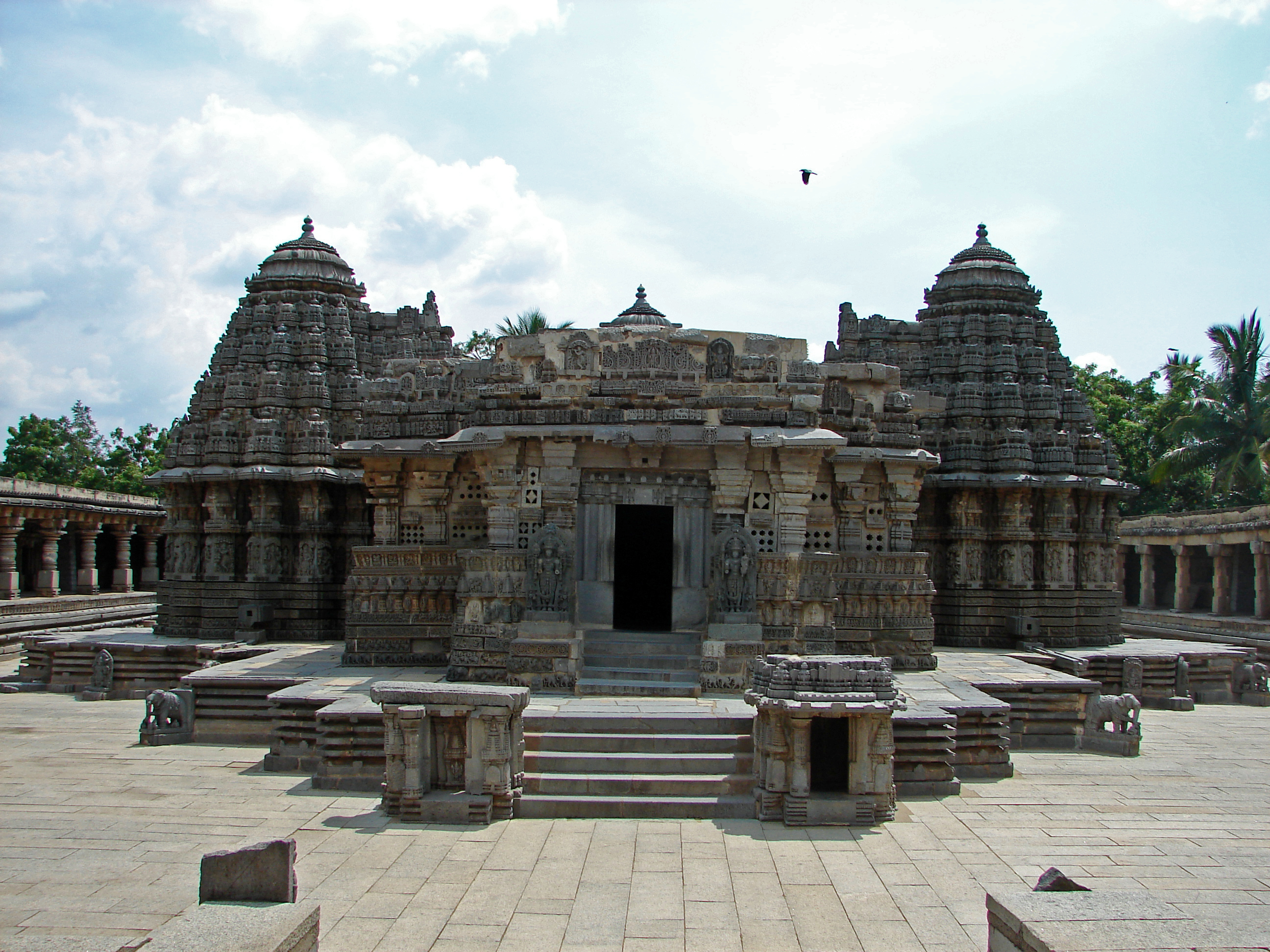 Photograph taken by me (Dineshkannambadi) at Keshava Temple (also spelt Chennakeshava or just Kesava) at Somanathapura, Karnataka, India in June, 2006